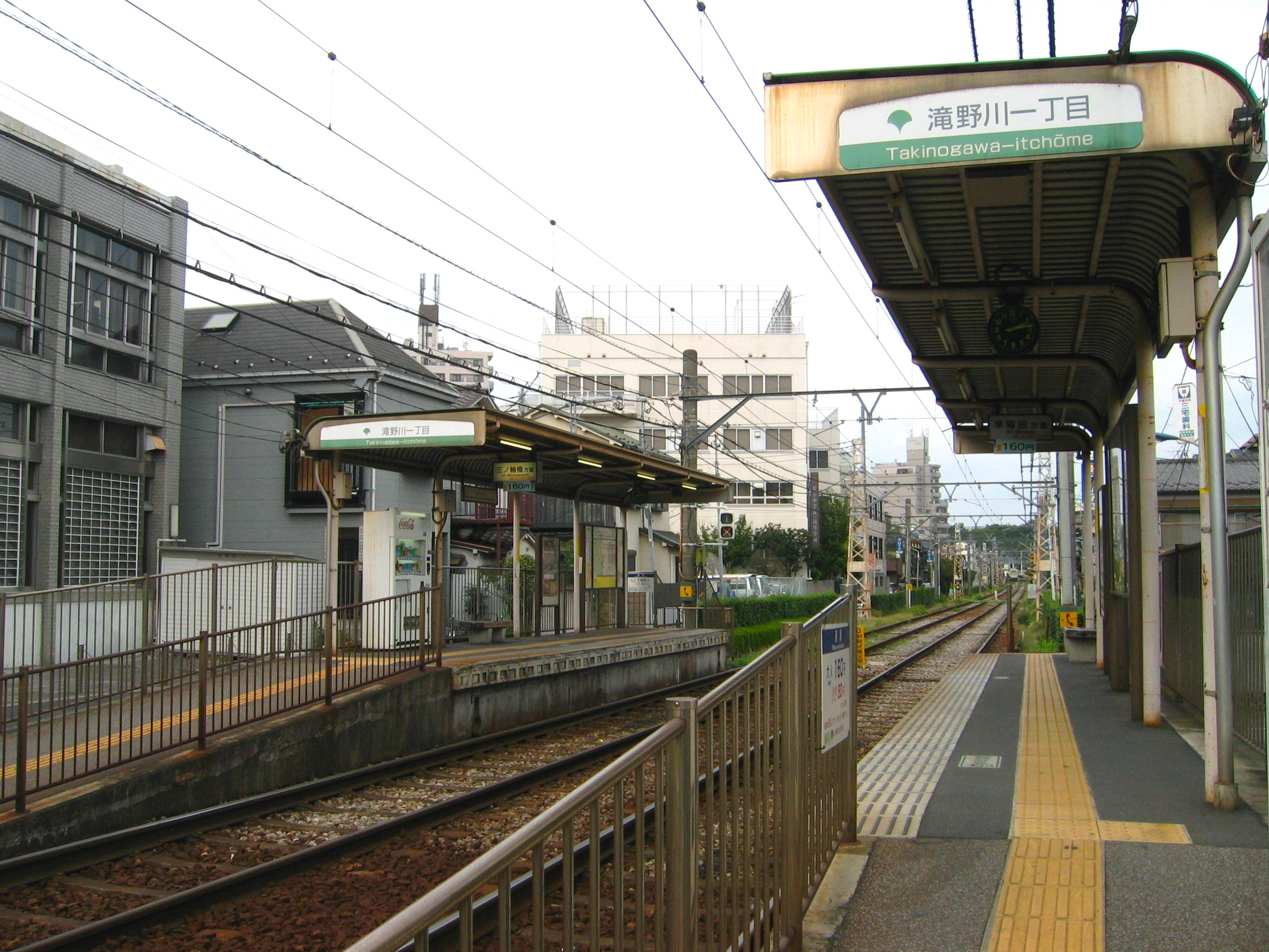 Toden Arakawa Line,Takinogawa Itchōme Station. (Tokyo, Japan)